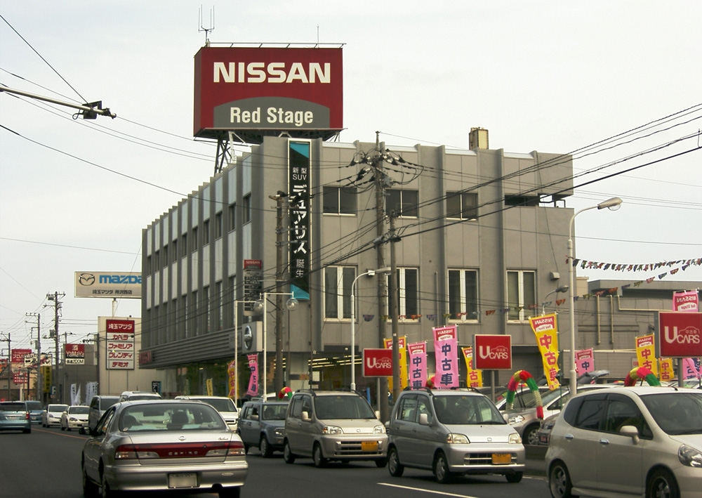 “Nissan_RedStage_Car_dealership_Tokorozawa_Saitama”